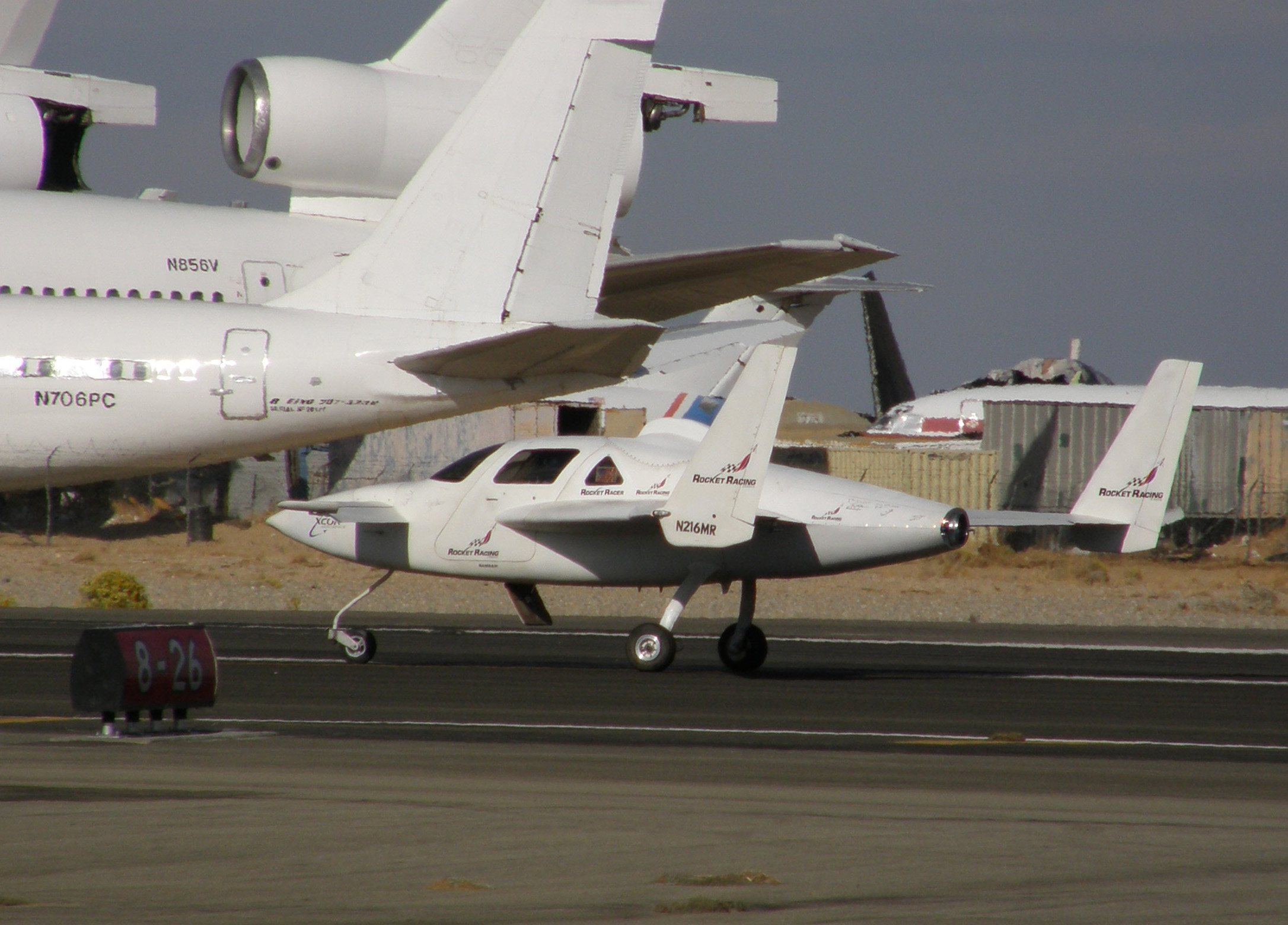 Xcor/Rocket Racing League Rocket Racer landing after its first flight to altitude at the Mojave Spaceport